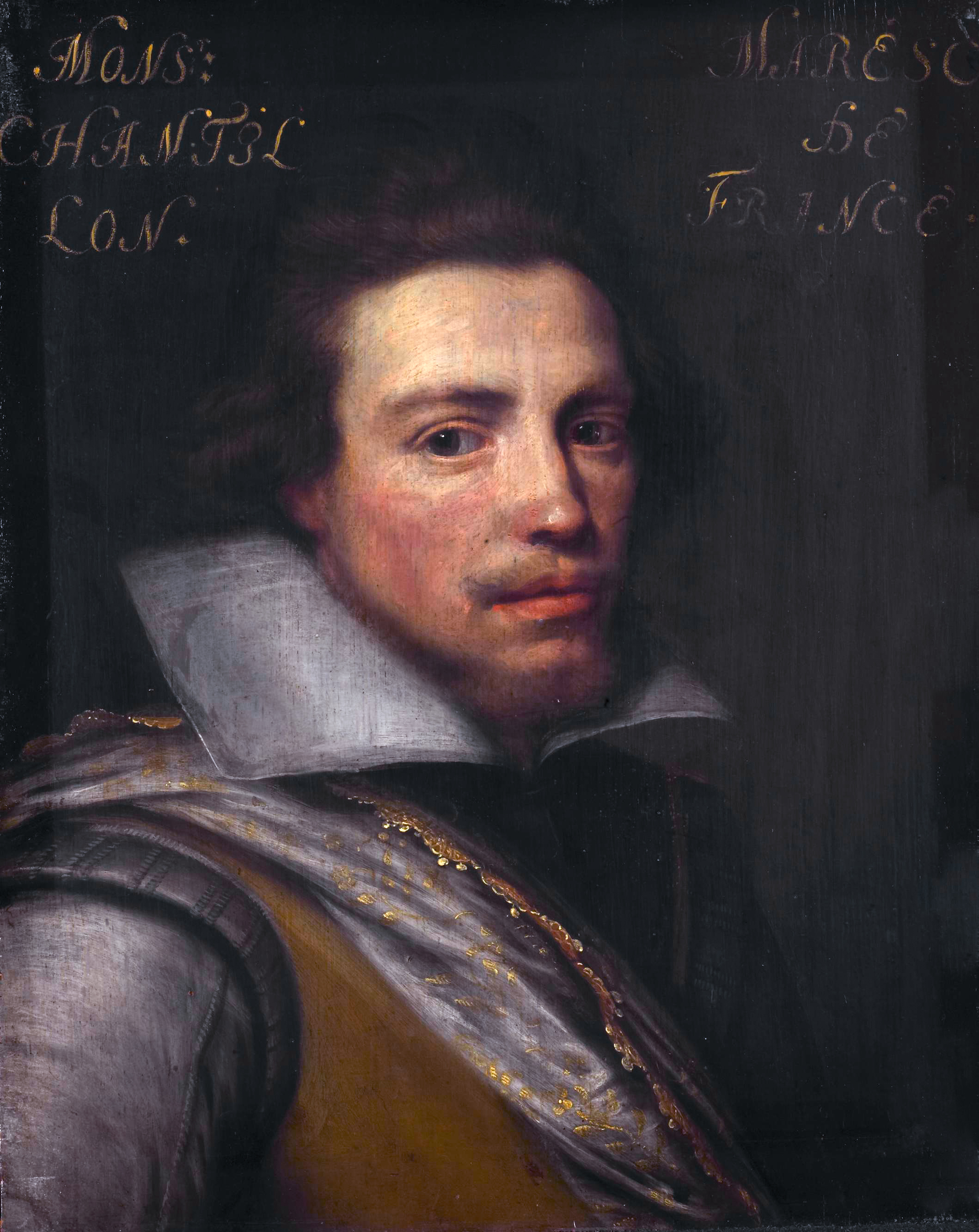 Portrait of Gaspard III de Coligny (1584-1646). Part of the Leeuwarden series, a series of portraits of military officials from the Eighty Years' War as well as members of the House of Orange-Nassau, first documented in 1633 in the Stadhouderlijk Hof (Stadholder's Court) in Leeuwarden (see Object history).